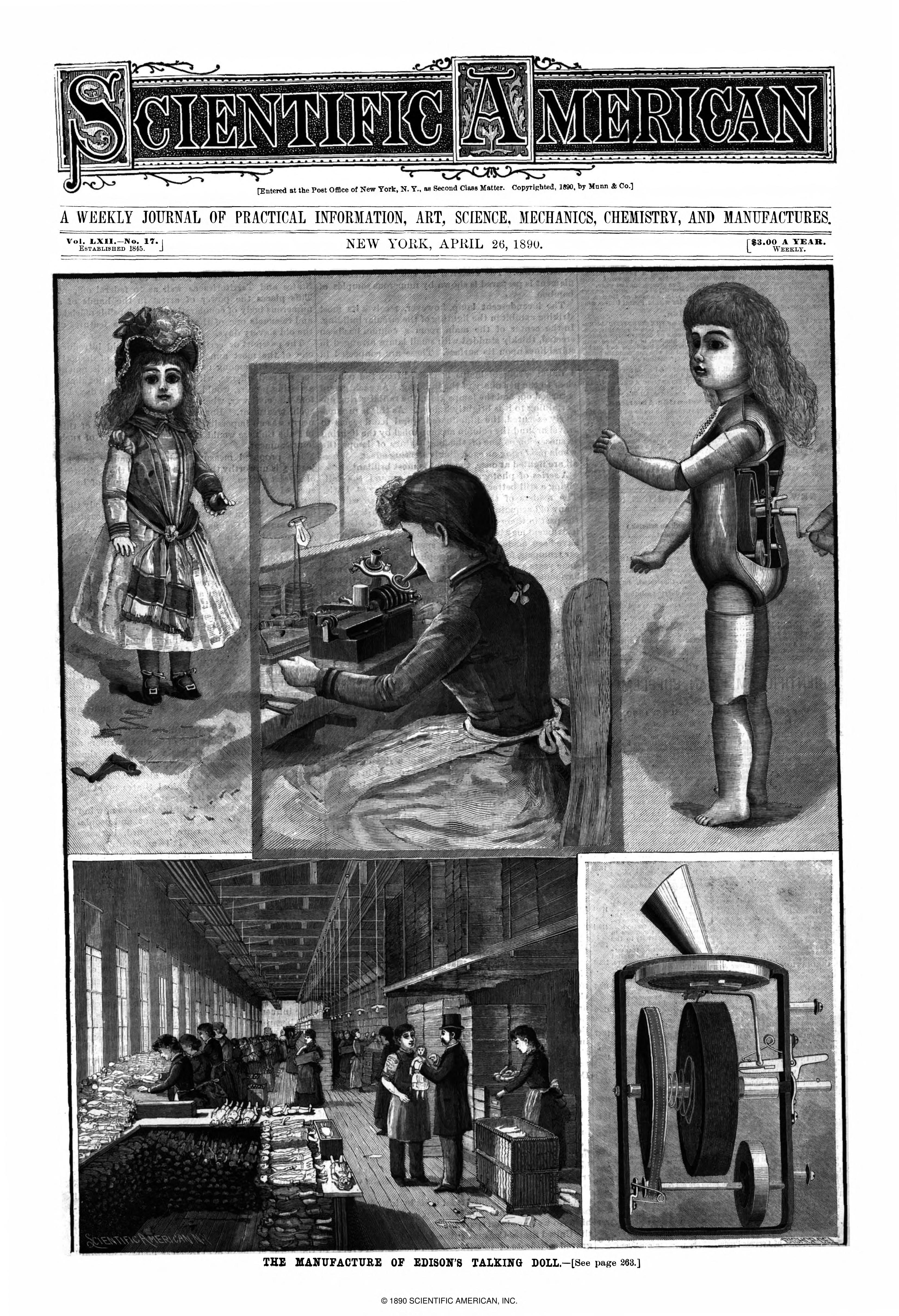 Cover of Scientific American